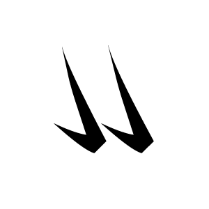 Same as dot.